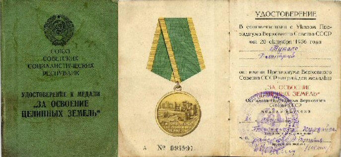 Award attestation booklet of the Medal "For the Development of Virgin Lands"